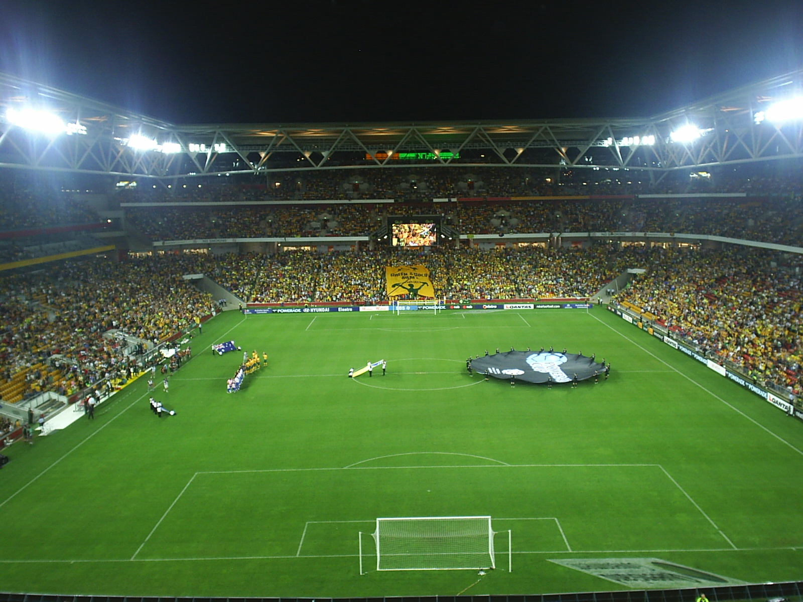 Suncorp Stadium during the national anthem on the 07/10/06 Australia v Paraguay friendly